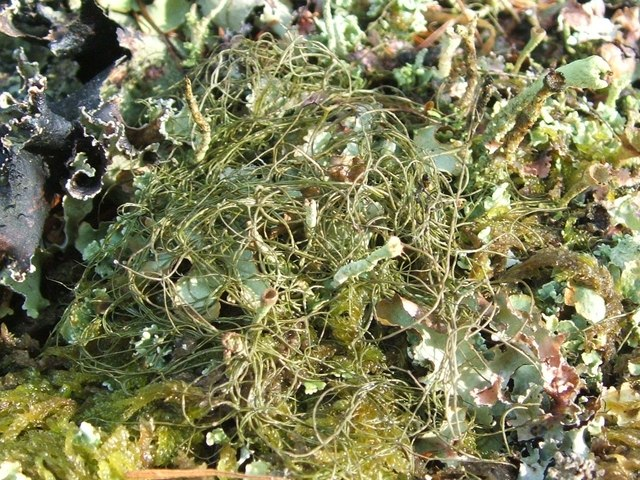 A lichen - Bryoria fuscescens. There are several lichens visible in this image, but the one being highlighted in this description is in the form of a tangle of greenish threads wrapped around the other lichens. Here, the lichen is lying fairly flat against the surface, but, nearby, it occurred in dense tufts hanging from the sides of the trees. It appears green in colour here, perhaps because it is very wet (it rained heavily for most of this day); it often appears more brownish in colour, especially when dry. In its general appearance, and its habit of forming hanging tufts, this species is similar to some Usnea species (e.g. 953699), but the branching pattern is quite different, and Usnea stems also have a distinctive strong central core. Through a hand-lens, some disc-shaped reproductive structures were visible, which were attached to, but wider than, the stems. This is the most common British Bryoria species. According to Frank S. Dobson's identification guide to lichens, it is very sensitive to ammonia pollution. This view, though not very typical, at least provides a close-up view of the lichen's stems. For a much more typical example of the appearance and habit of this species, see 1282325.